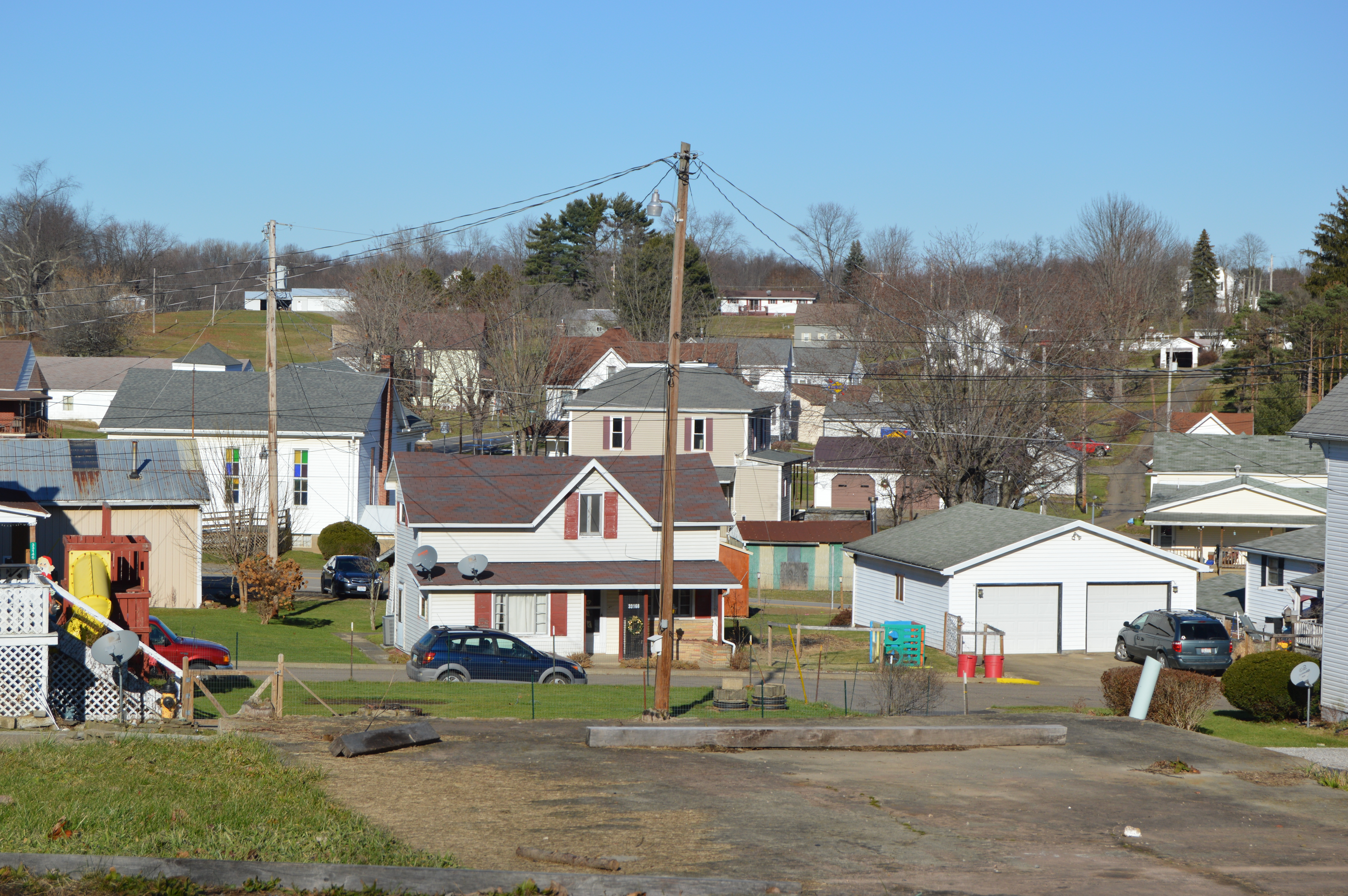 Looking north from Back Street over houses and a church on Railroad Street and Shenandoah Trail in Lewisville, Ohio, United States.